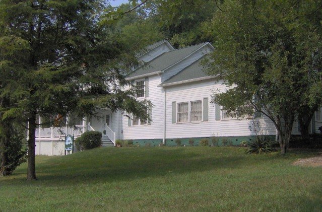 Chilhowee Inn in Walland, Tennessee, located in the Southeastern United States. During the U.S. Civil War, the residents of Miller Cove erected an American flag and pledged allegiance to the Union. When a Confederate force passed through later in the war, a local warned them not to harm the flag for fear agitating the mountaineers. The Confederates saluted the flag and marched onward to Maryville. The Chilhowee Inn was built on the grounds by the Schlosser Leather Company in 1902.